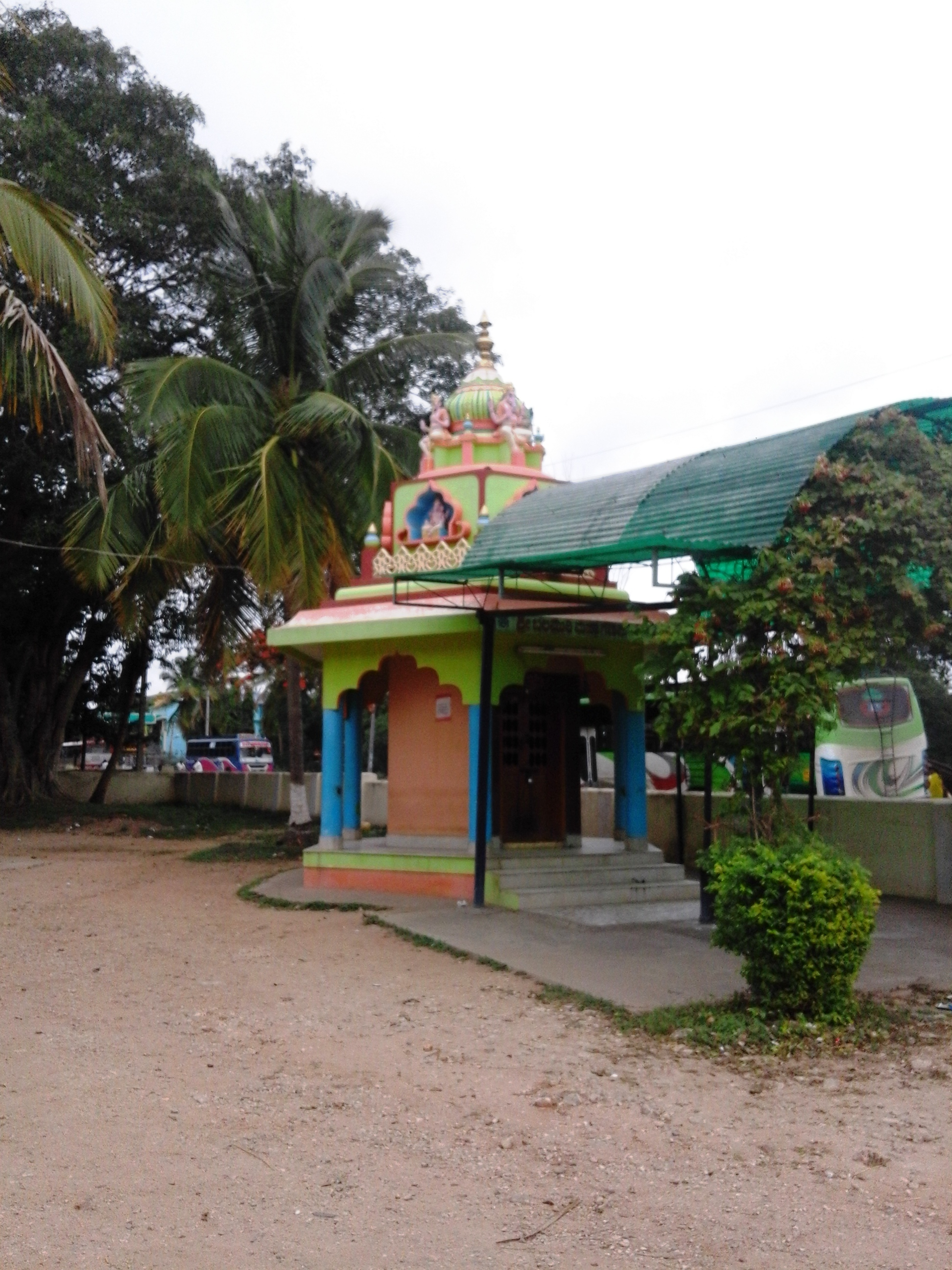 Tirumakudal Narsipur Town, Mysore district, Karnataka state, India.